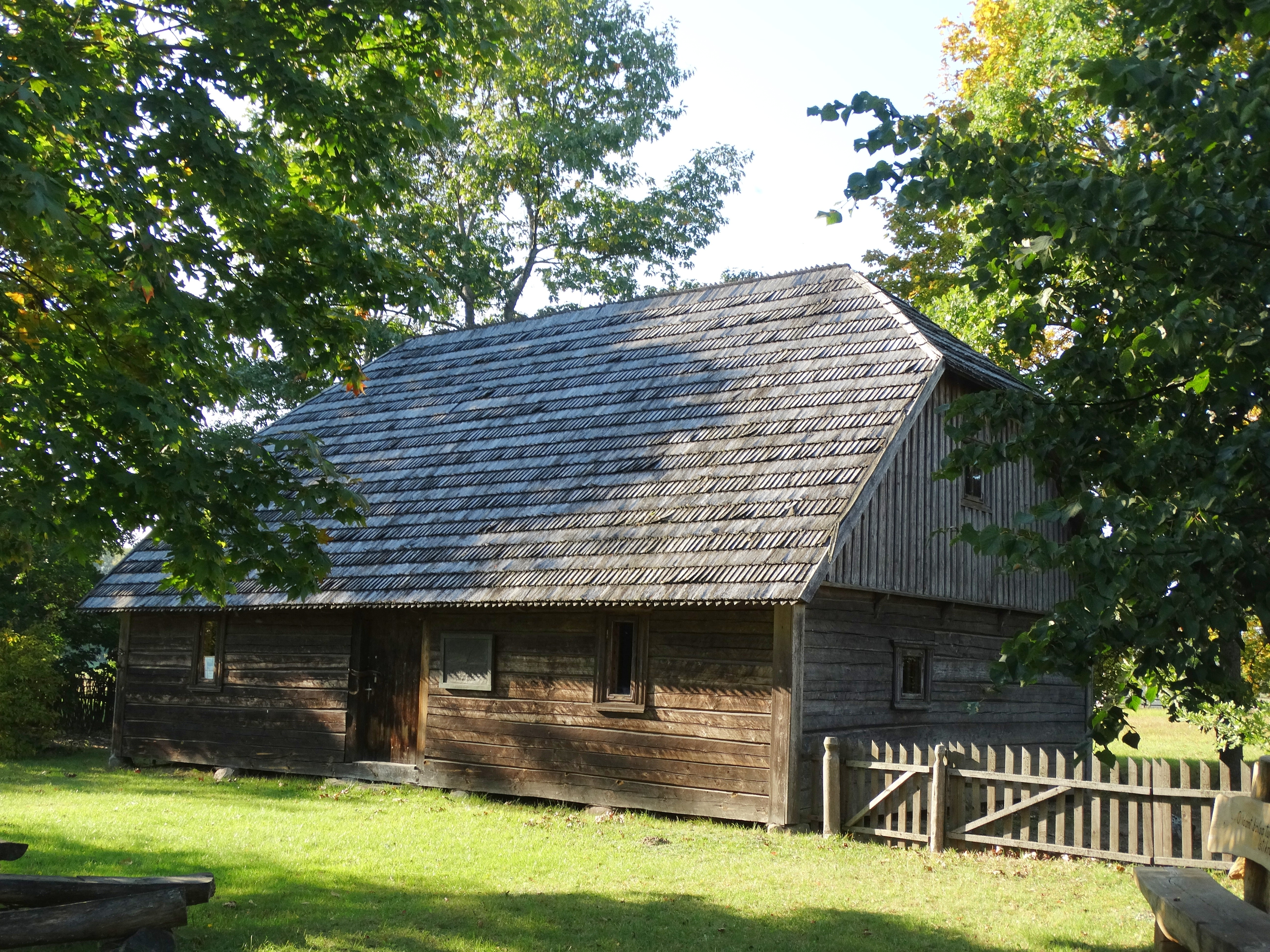 Simonas Stanevičius native homestead, Kanopėnai, Raseiniai district, Lithuania